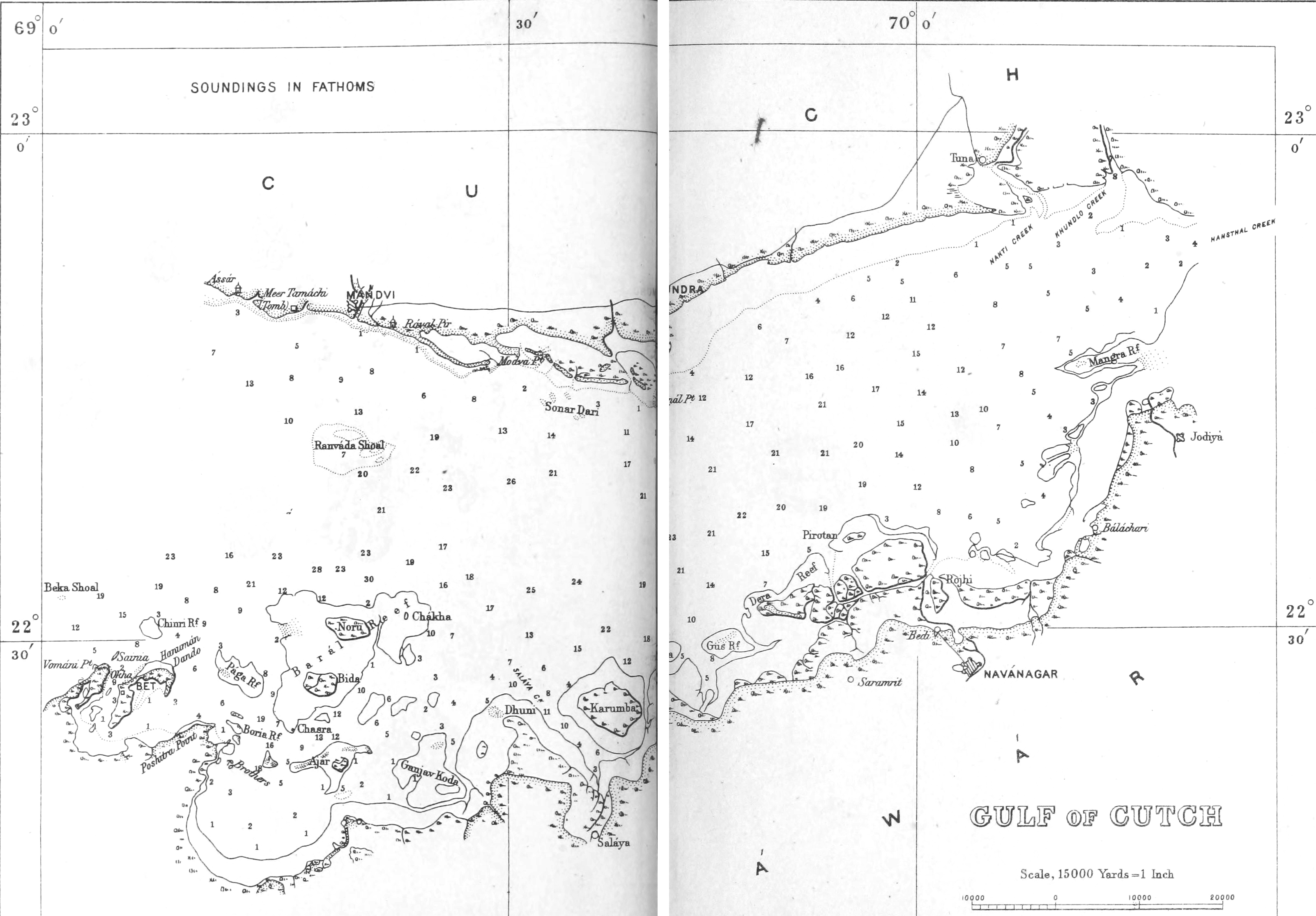 Gulf of Kutch 1896 View this map on the BL Georeferencer service. Image taken from: Title: "Gazetteer of the Bombay Presidency. [Edited by Sir James M. Campbell. General index, by R. E. Enthoven.]", "Miscellaneous Official Publications" Contributor: Campbell, James M. (James Macnabb) - Sir Contributor: ENTHOVEN, Reginald Edward. Shelfmark: "British Library HMNTS 10055.g.", "British Library HMNTS 10055.h." Volume: 09 Page: 30 and 31 Place of Publishing: Bombay Date of Publishing: 1896 Issuance: monographic Identifier: 000403057